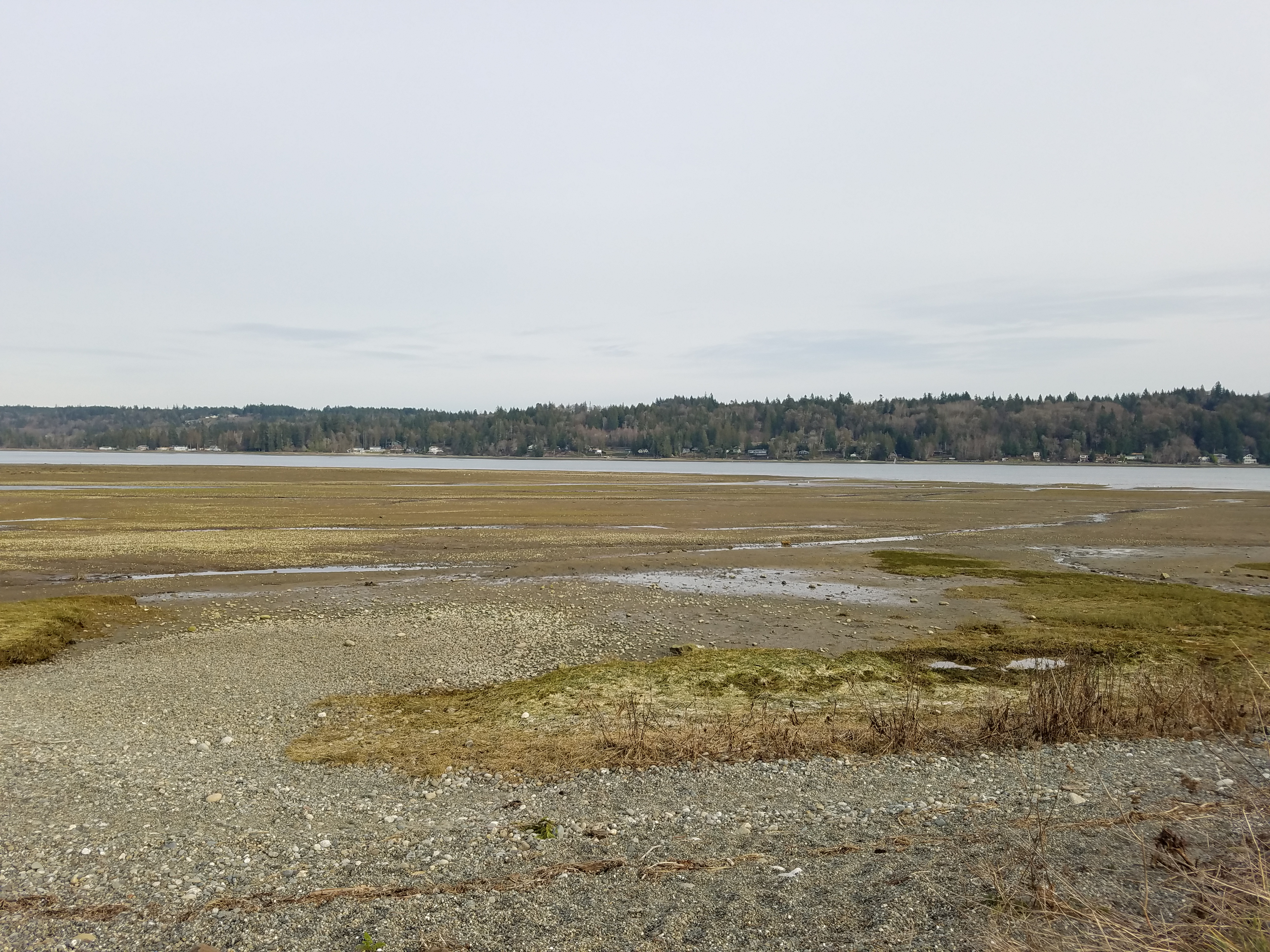 View of pebble beach and tide flats near low tide at the beach on the Hood Canal at Belfair State Park in Washington state, USA.